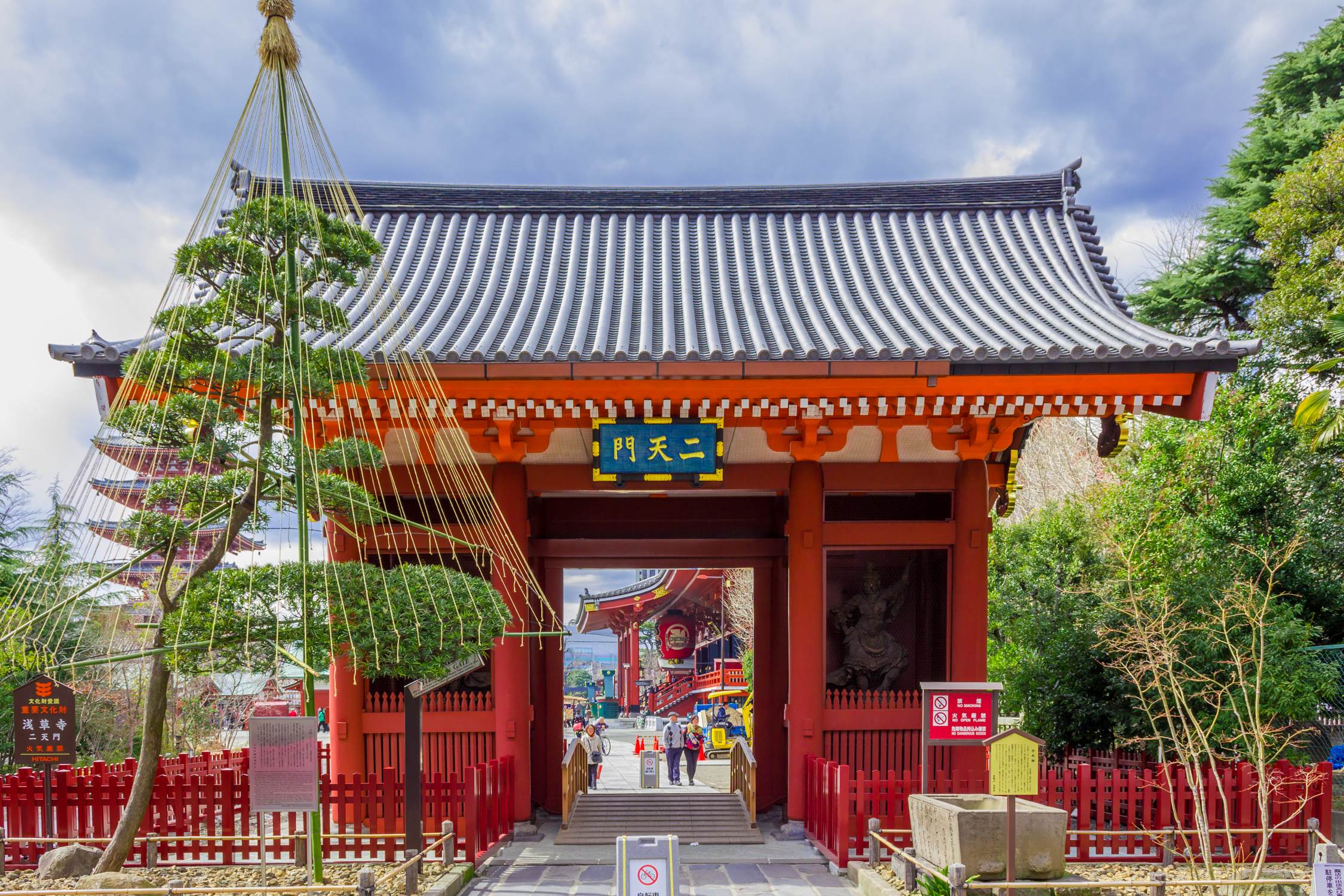 Nitenmon Gate of Sensō-ji Temple